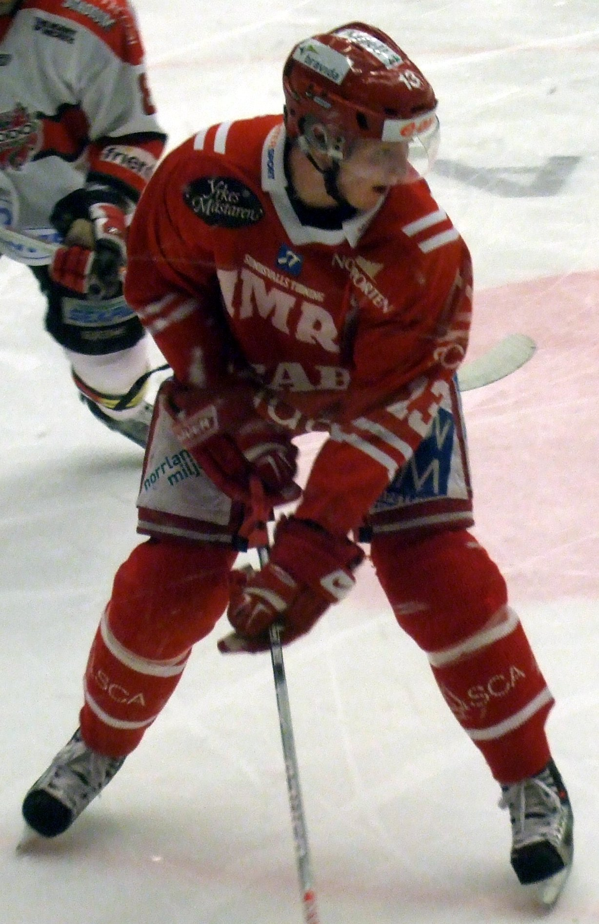 Ice hockey player Peter Regin of Timrå IK in E.ON Arena, Timrå, Sweden